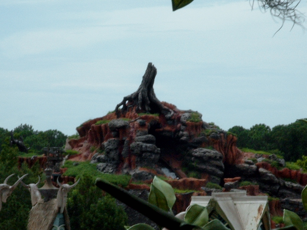 Splash Mountain, Magic Kingdom